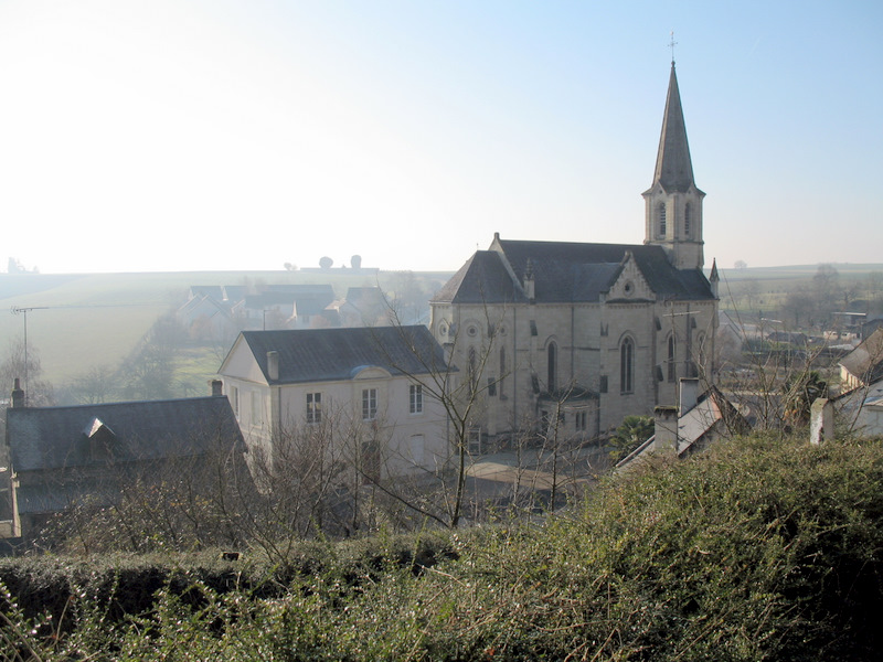 Center of the Village